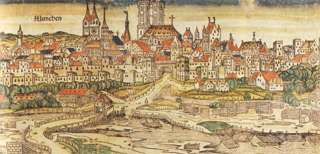 General view of Munich from the Nuremberg Chronicle